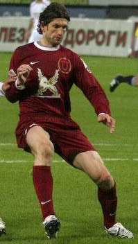 Roman Sharonov in action for FC Rubin